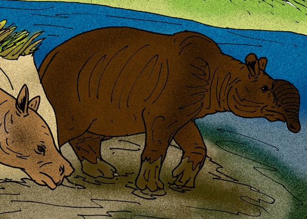 Reconstruction of the Miocene oreodont, Brachycrus laticeps. (C) Stanton F. Fink